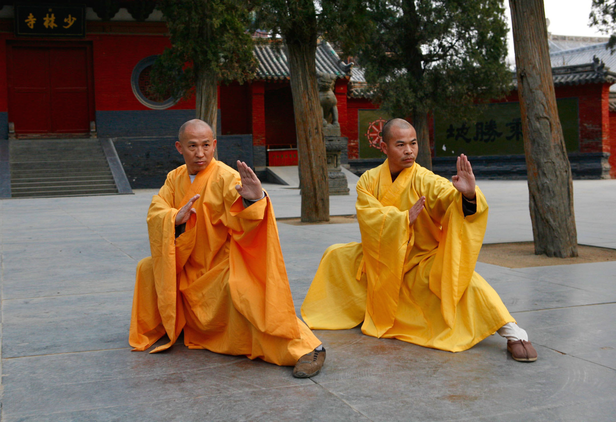 In the picture they are the two grandmasters of the Shaolin Temple Shi DeRu (Shawn Xiangyang Liu) and Shi DeYang (Shi WanFeng) who are two descendent disciples of the late Great Grand Master of the Shaolin Temple Shi SuXi (aka: His Holiness Upper Su and Lower Xi).